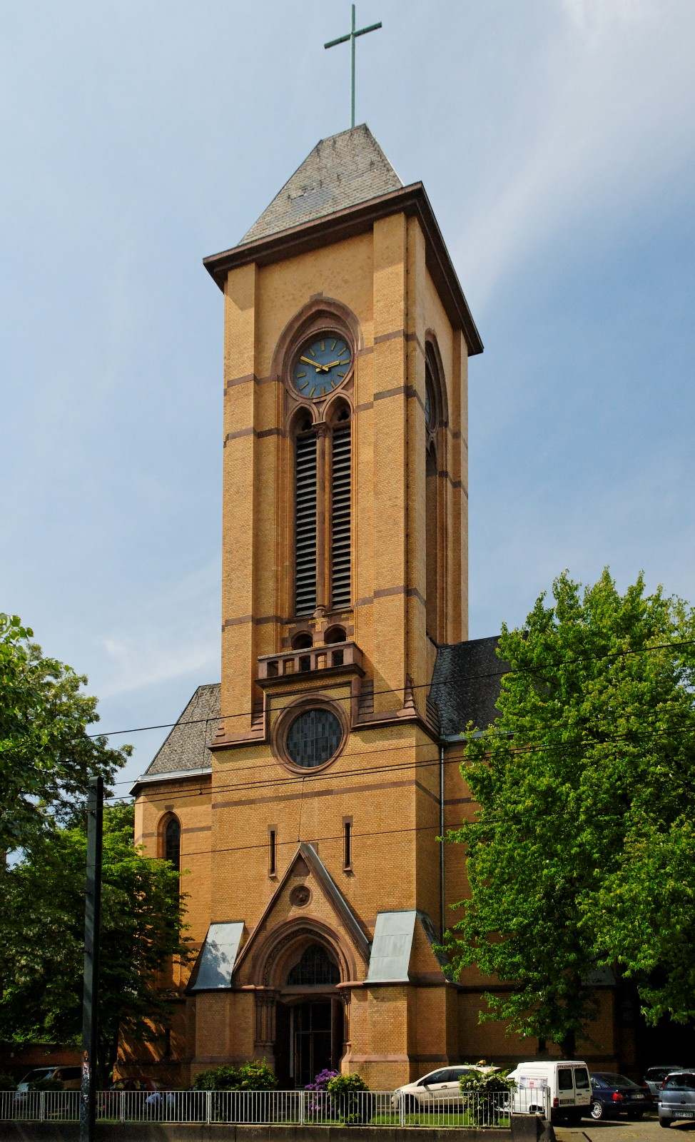 Christ Church in Düsseldorf-Oberbilk, Germany